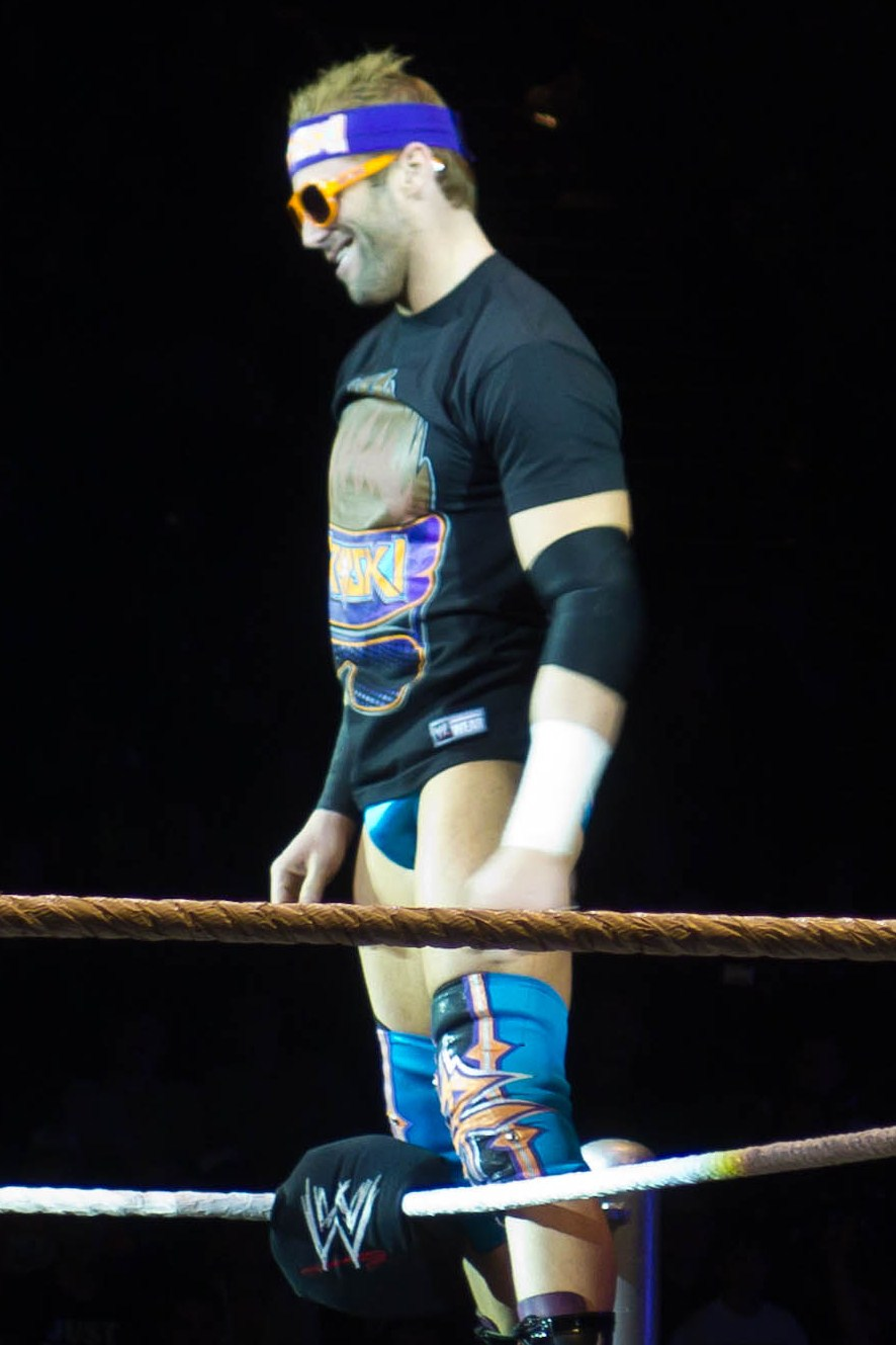 Zack Ryder on the WWE Raw World Tour in London, November 2011.